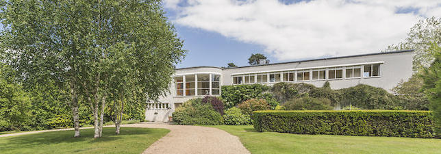 Shrubs Wood in Chalfont St Giles, Buckinghamshire. c.2015.